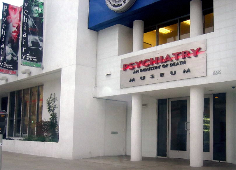 The Scientology-run museum Psychiatry: An Industry of Death in Hollywood. 30 April 2006. Image by Museum Geek - (